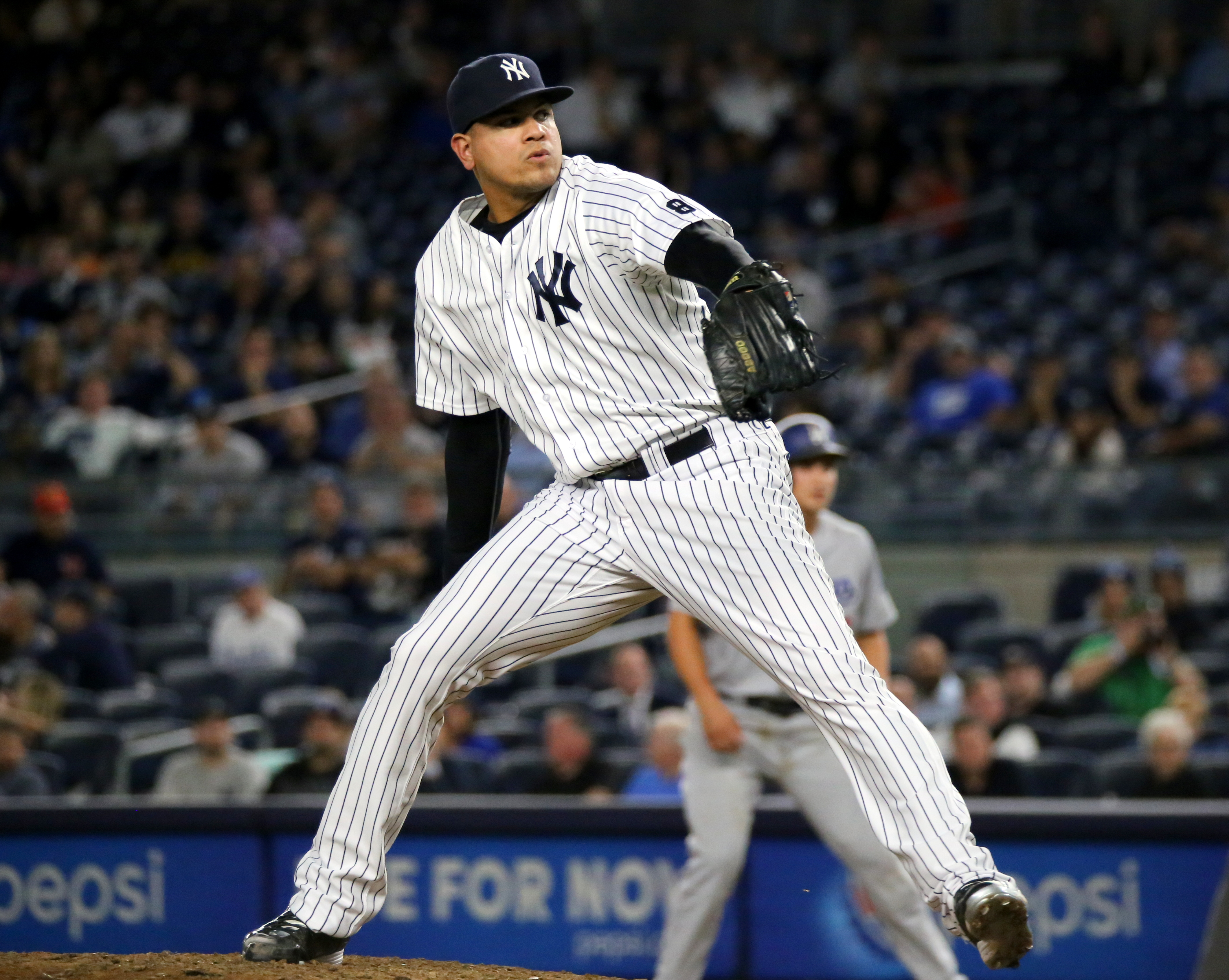 New York Yankees pitcher Dellin Betances during the ninth inning of a game against the Los Angeles Dodgers at Yankee Stadium in the Bronx, New York, NY on September 13, 2016